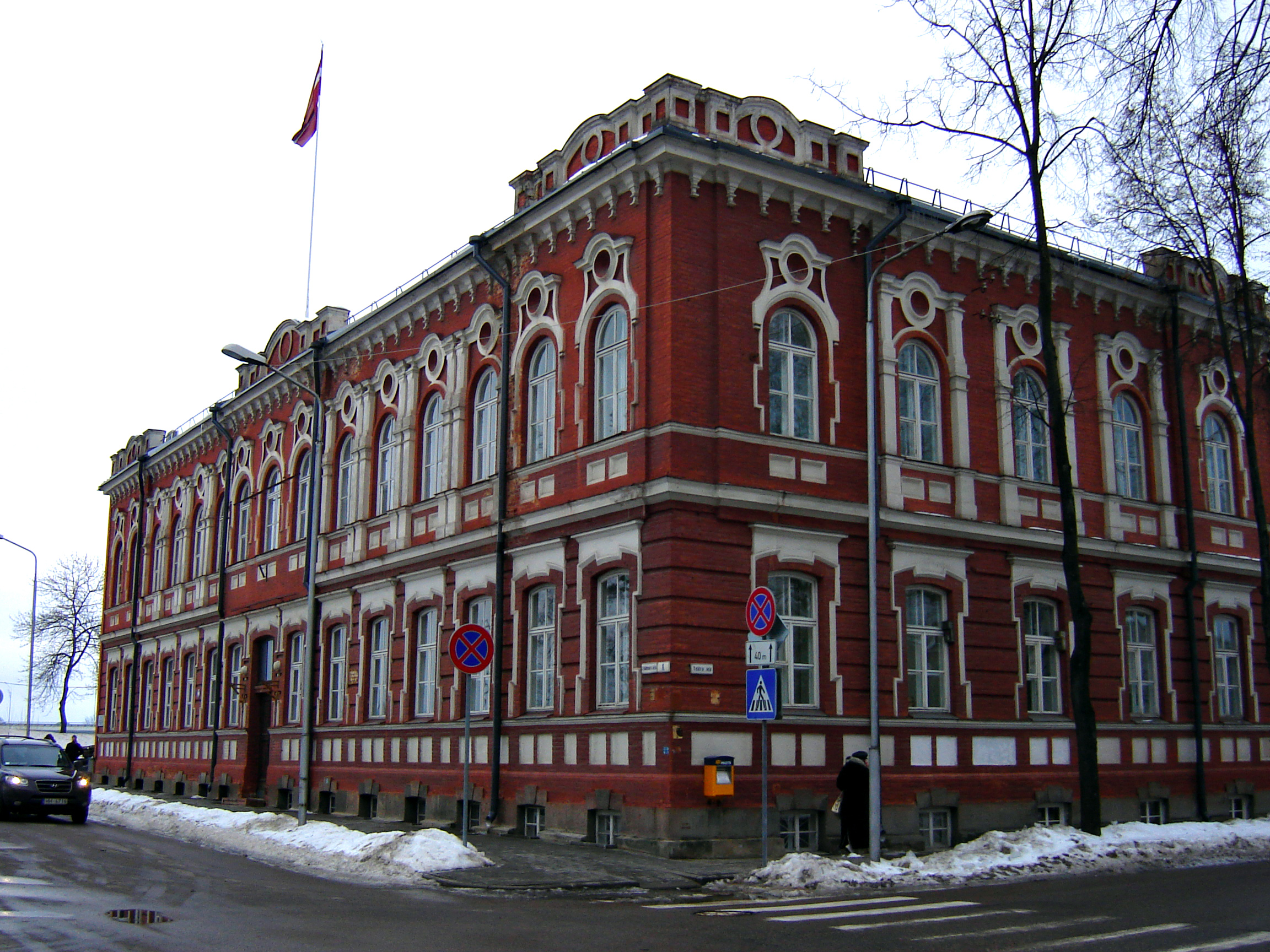 The historic section of the Daugavpils City Council building